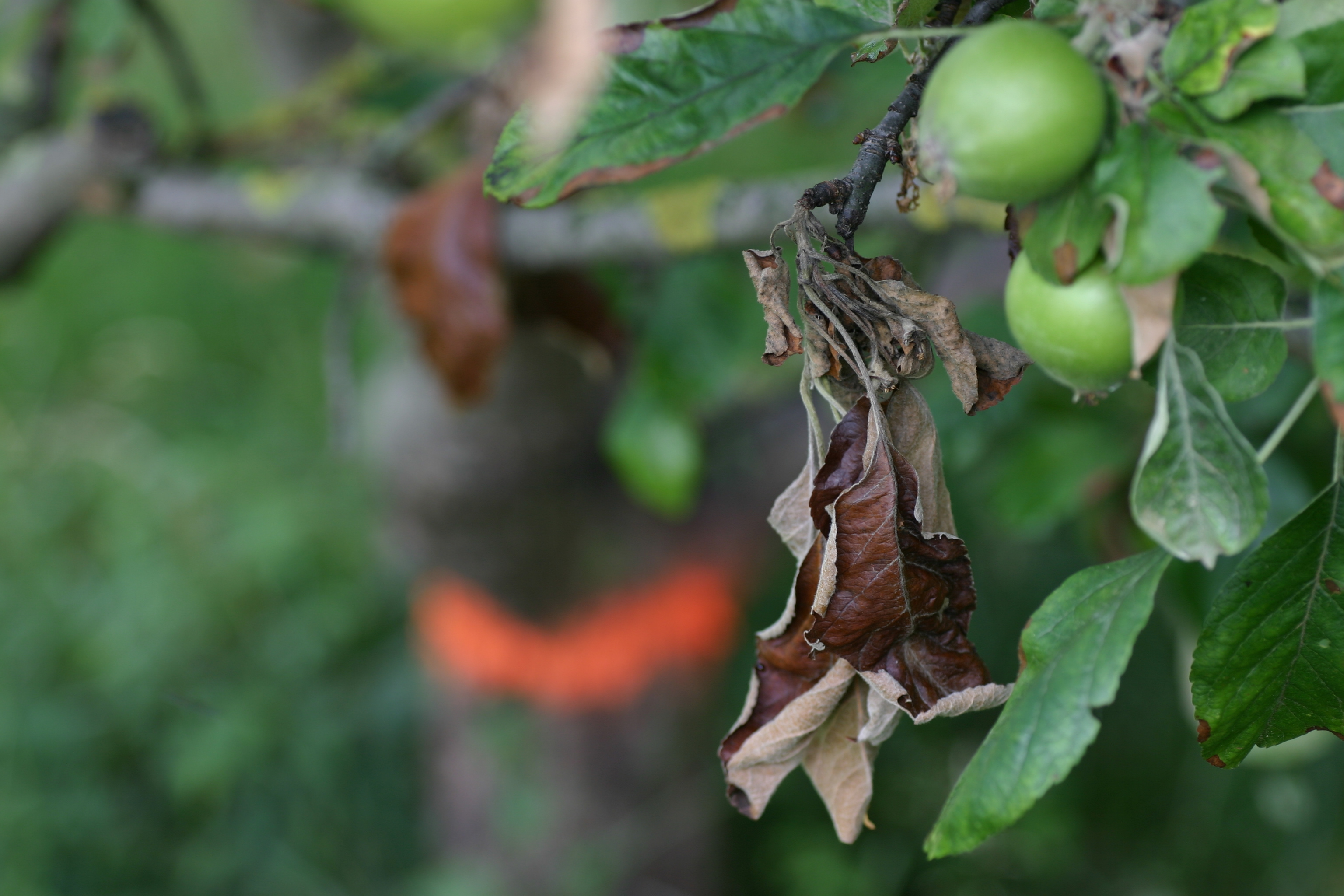 Apple tree with fire blight, marked to be cut down